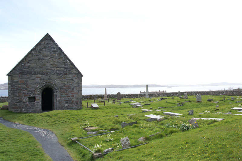 Iona Abbey - Island of Iona, Scotland - St Oran's Chapel